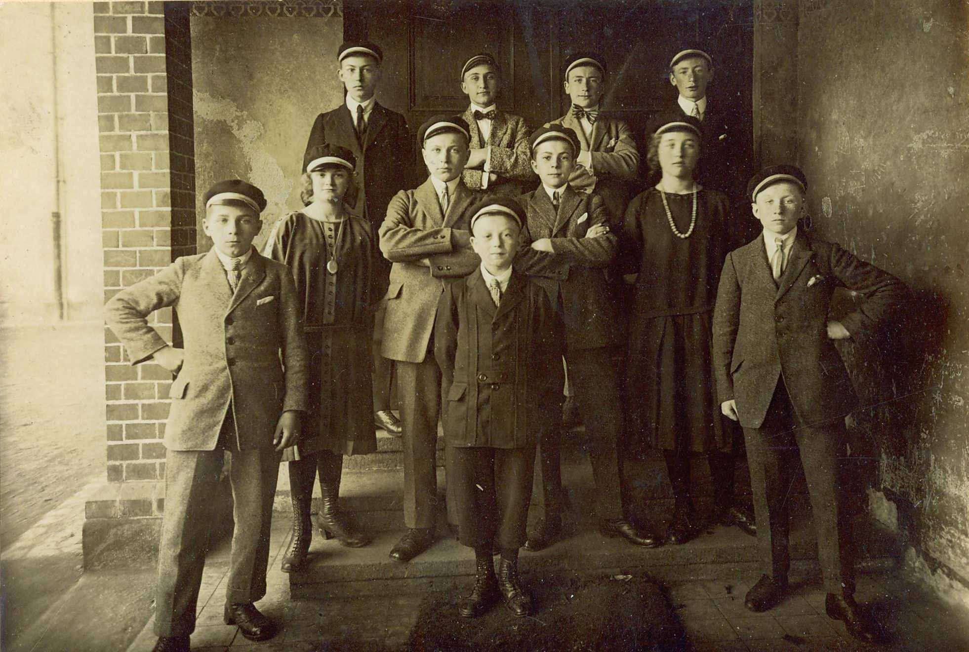 german pupils, 1924, with "school-caps"